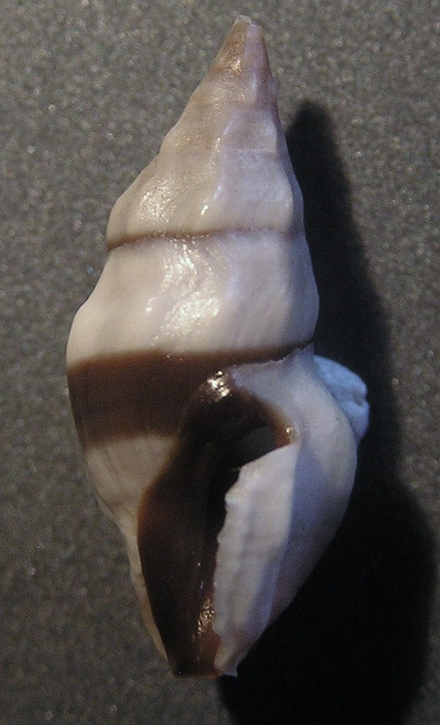 Clavus exasperatus (L. A. Reeve, 1843, a sea snail from the family Drilliidae; Philippines